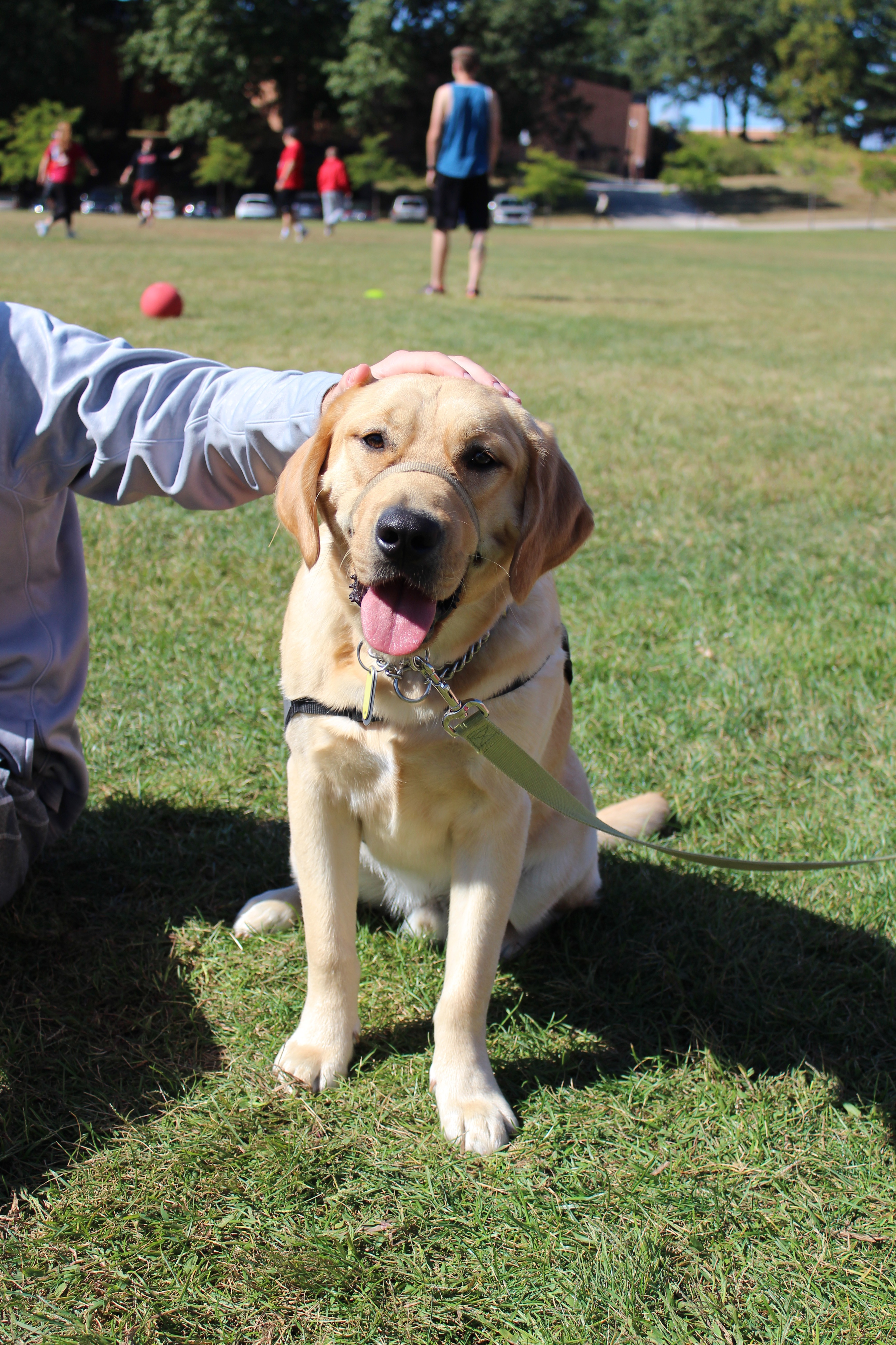 Blitz the service dog-in-training handled by Elise Fontanesi and Allyson Westfall from March 5th, 2017 to January 14th, 2018.